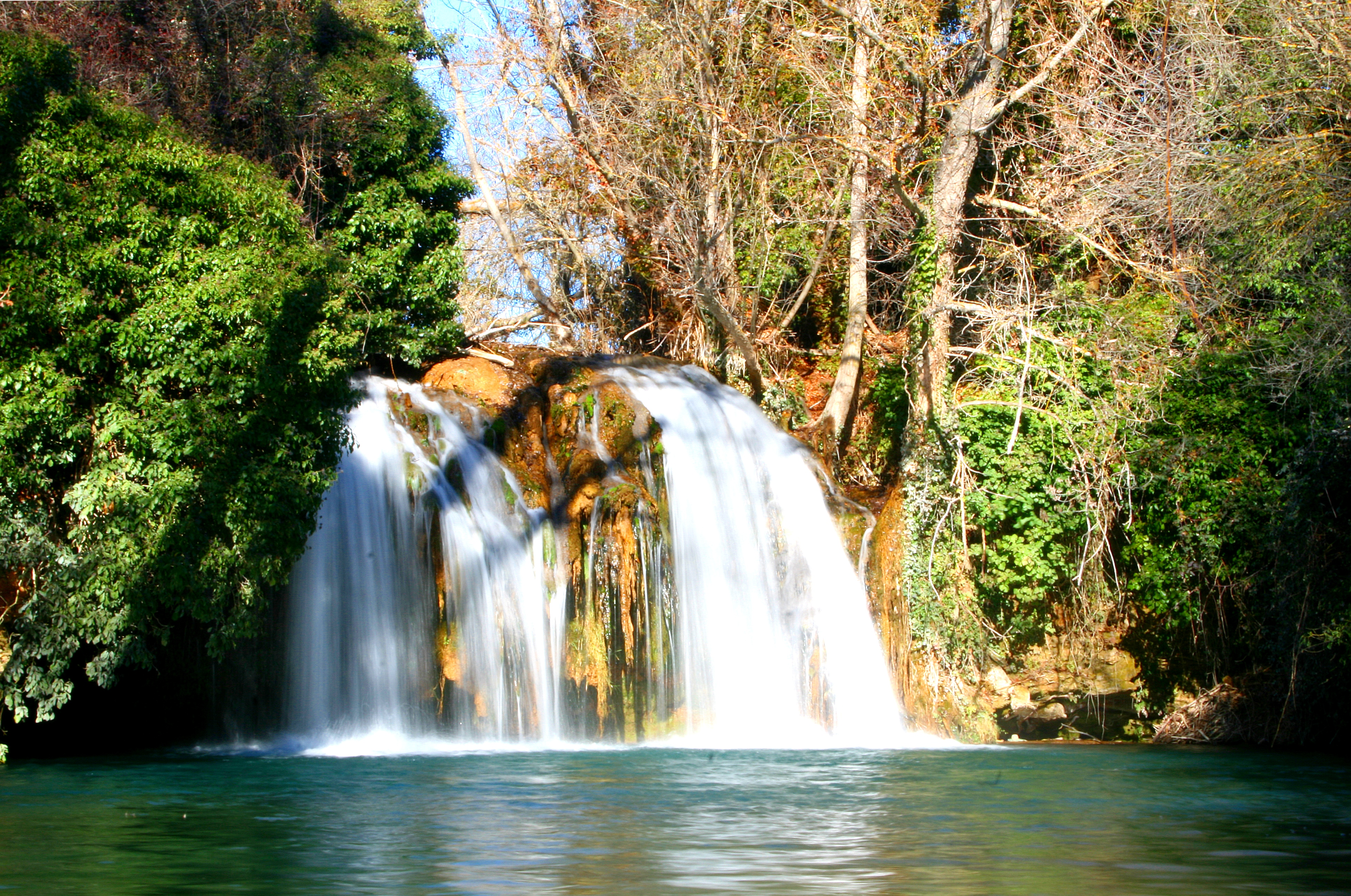 Pozo de los Chorros, Bijuesca, Spain